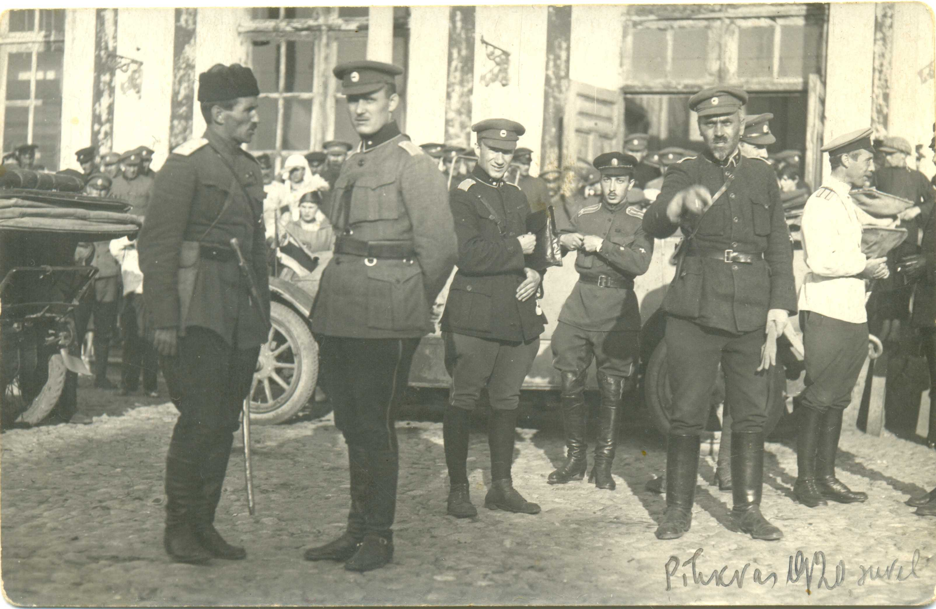 The highest command of the Estonian Army visit to Pskov 31 may 1919. S. Bulak-Balakhovich (left) talks with the commander of the Estonian army Johan Laidoner